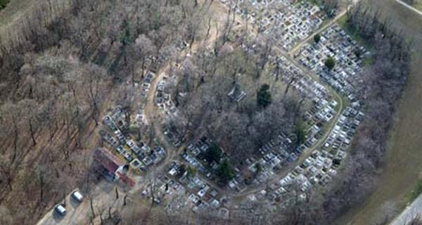 Agárd, Hungary, aerial photography